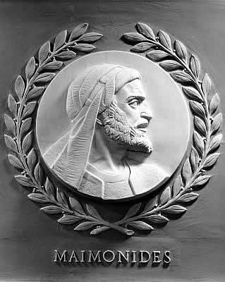 Maimonides marble bas-relief, one of 23 reliefs of great historical lawgivers in the chamber of the U.S. House of Representatives in the United States Capitol. Sculpted by Brenda Putnam in 1950. Diameter 28 inches.